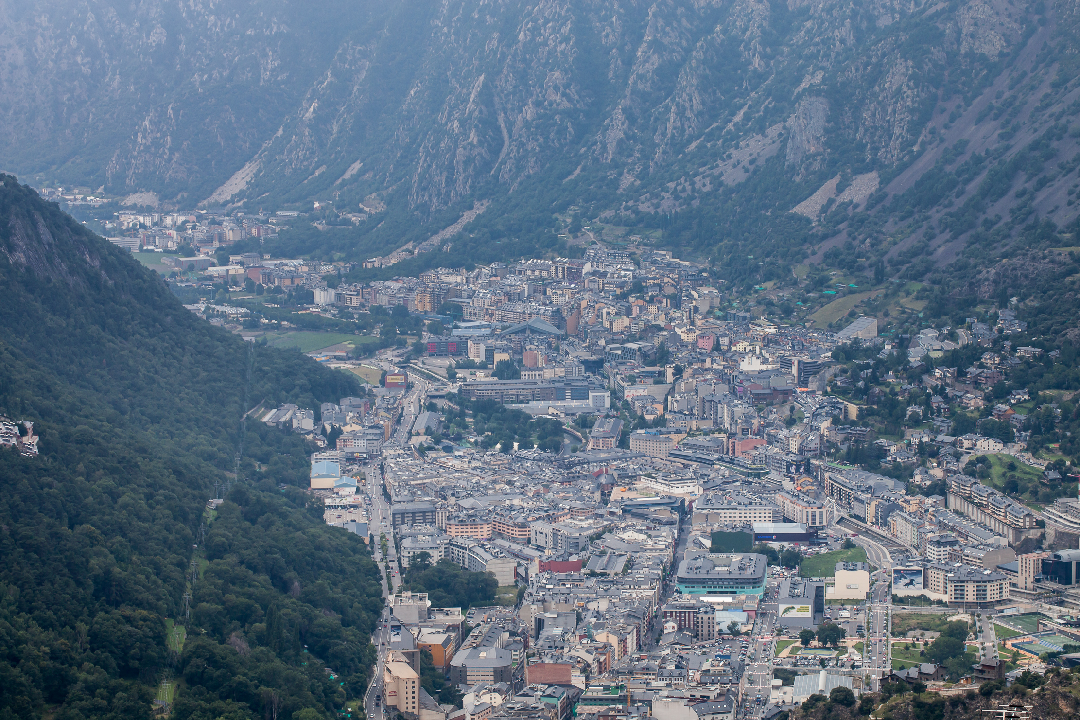 Escaldes-Engordany (Andorra)